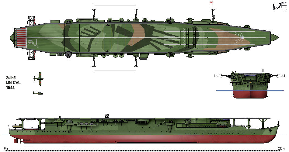 Drawing of Zuihō, showing her with the 1944 camouflage.